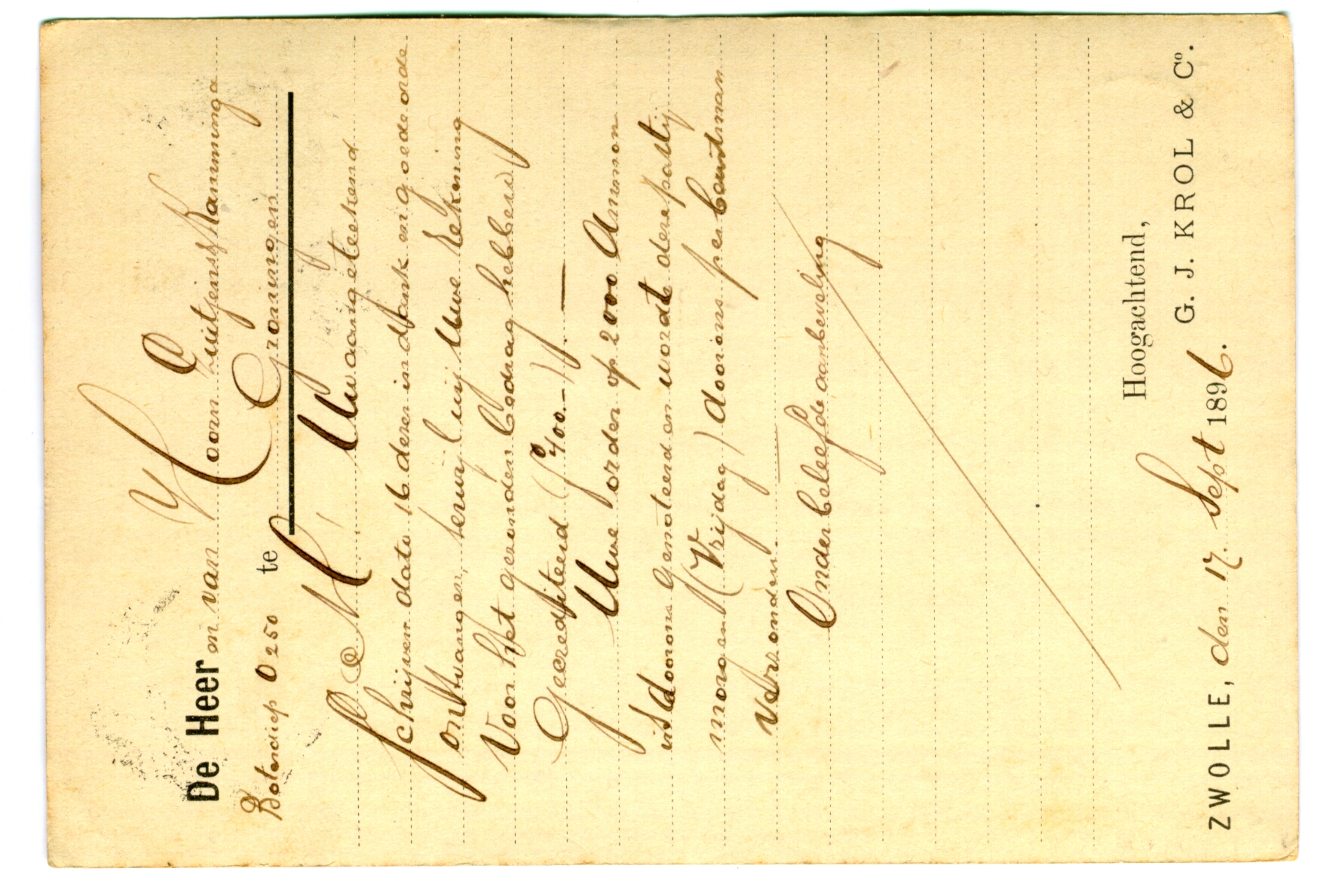 Dutch postcard, cancelled Zwolle 1896-09-17